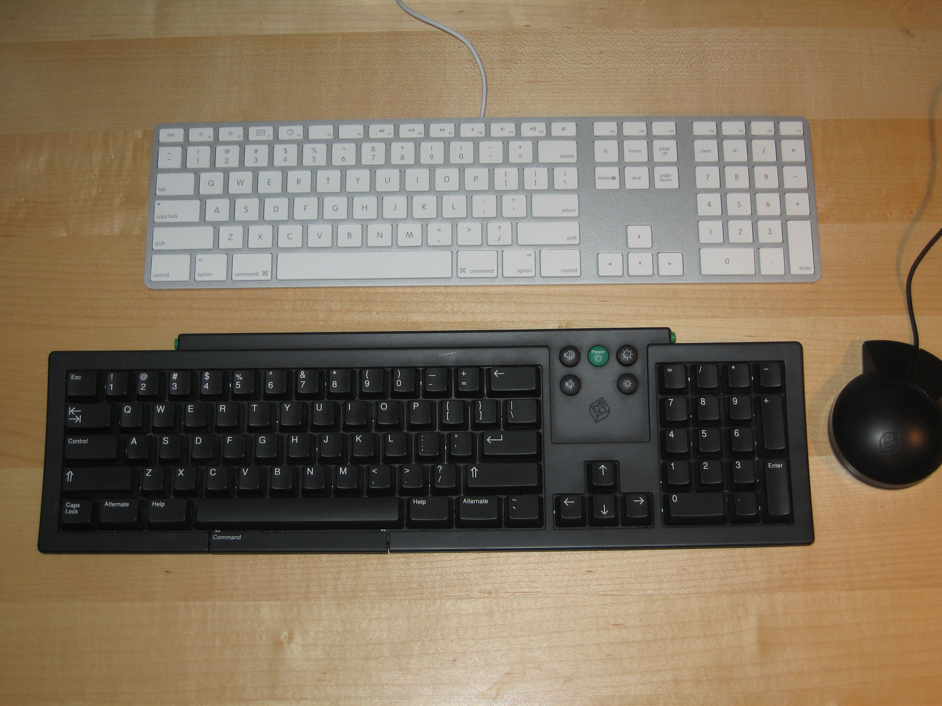 Apple Keyboard vs. NeXT ADB keyboard (circa 1992)